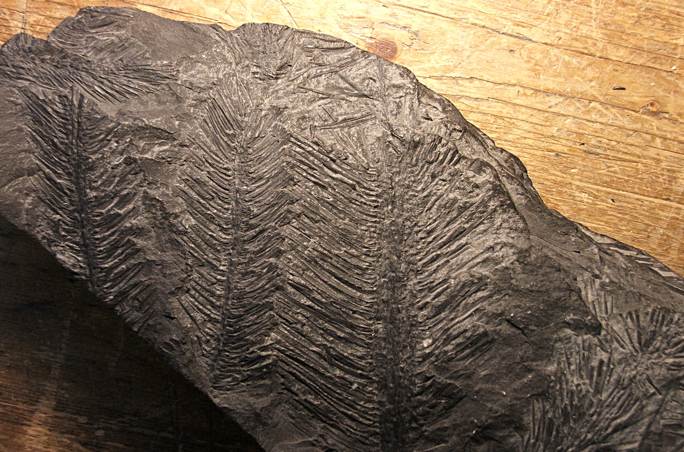 Specimen housed in Sedgwick museum, Cambridge.